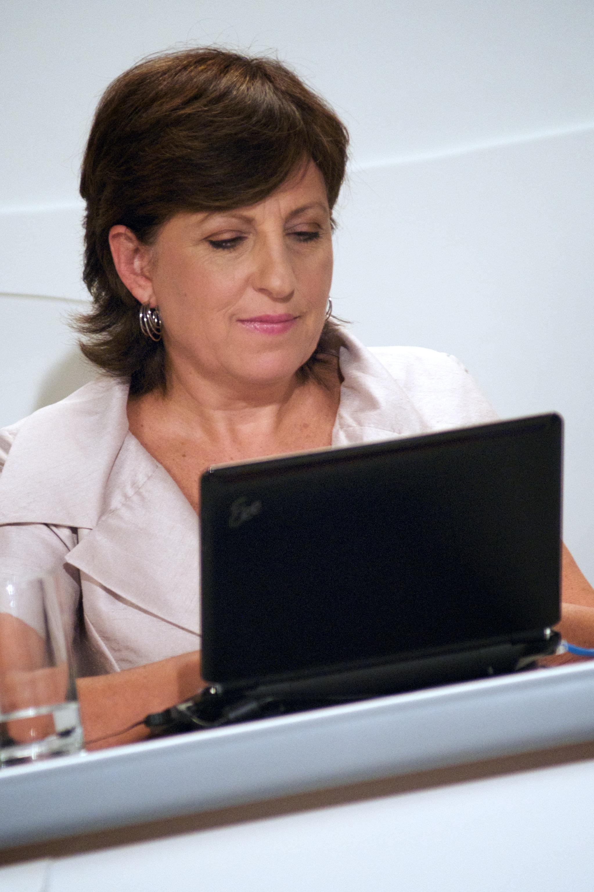 Rosana Hermann in the Brazilian public channel TV Cultura.